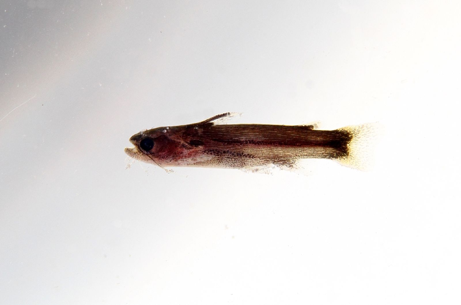 Auchenipteridae Tatia sp 3